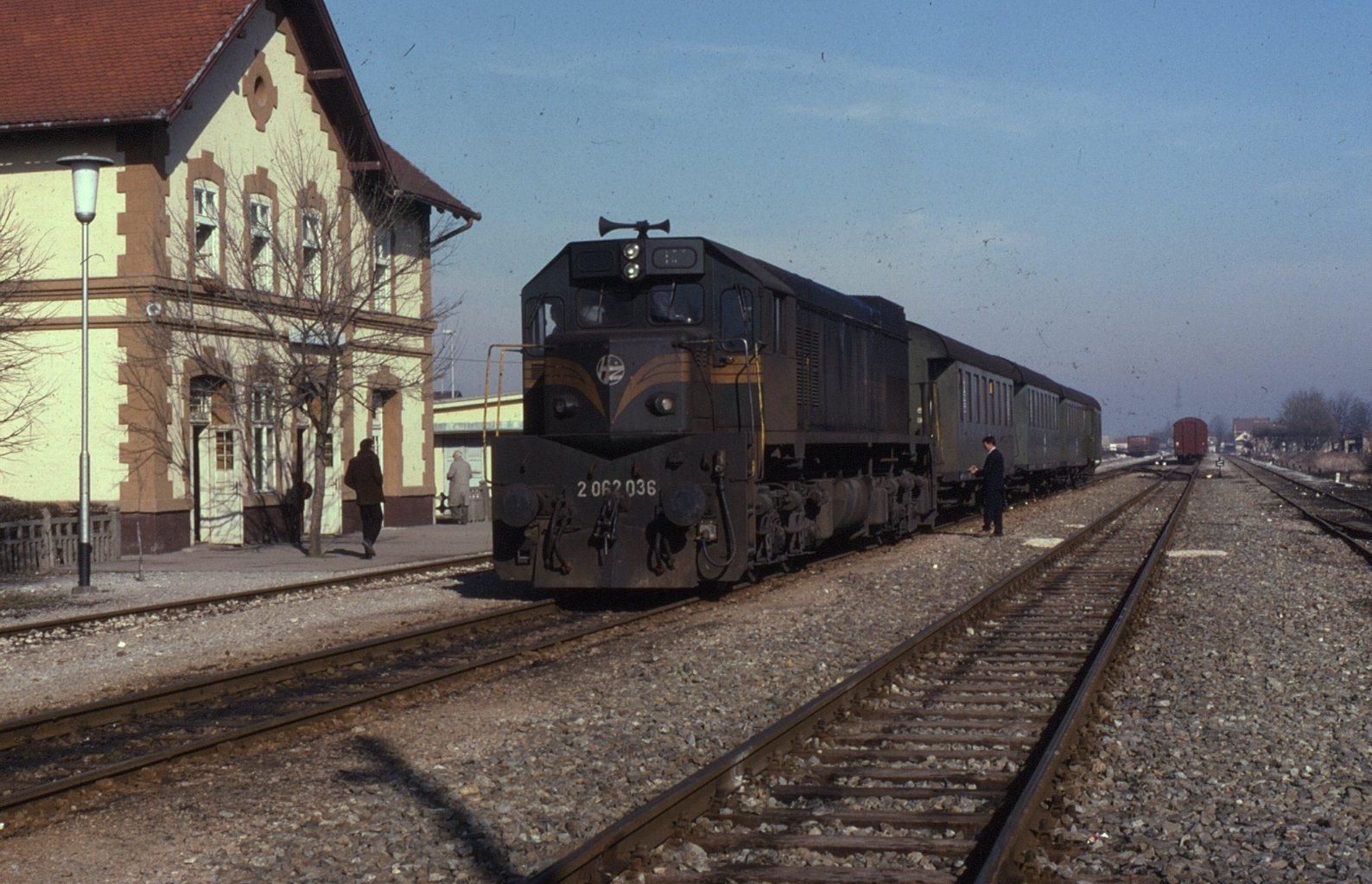 HŽ 2062 at Županja train station.